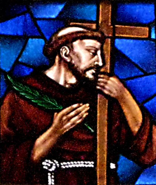 Saint Nicholas Tavelich